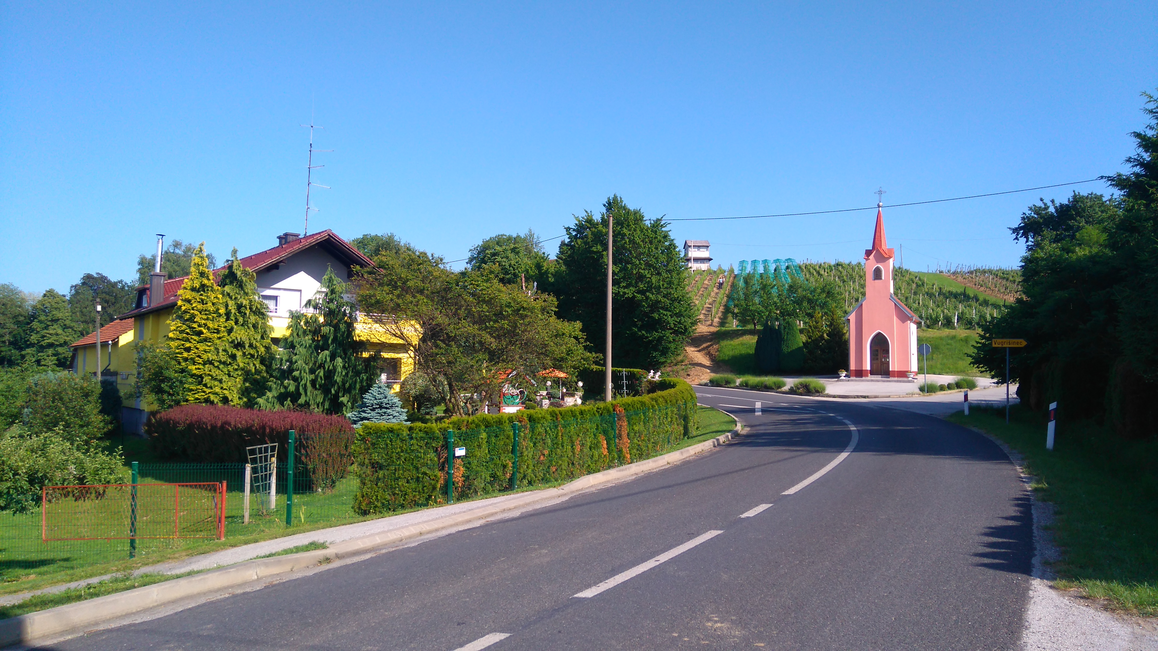 Prekopa village center.